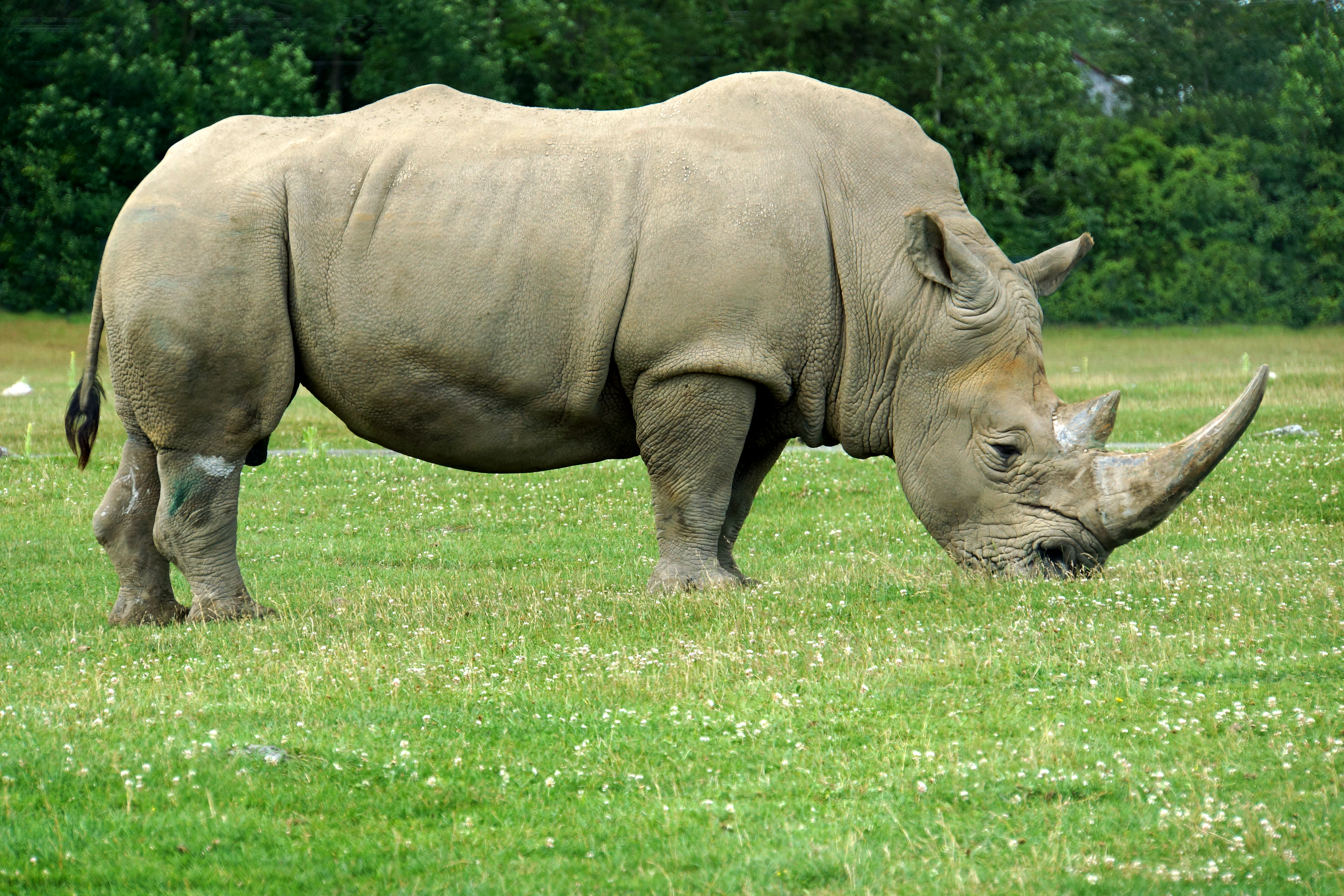 PLEASE, NO invitations or self promotions, THEY WILL BE DELETED. My photos are FREE to use, just give me credit and it would be nice if you let me know, thanks. The white rhinoceros is the largest species of rhinoceros that exists. It has a wide mouth used for grazing and is the most social of all rhino species.